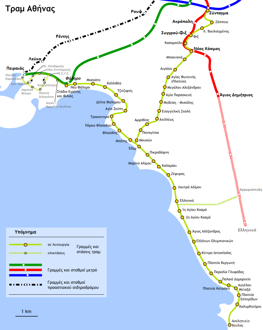 Geographically accurate diagram - map of the Athens tram network